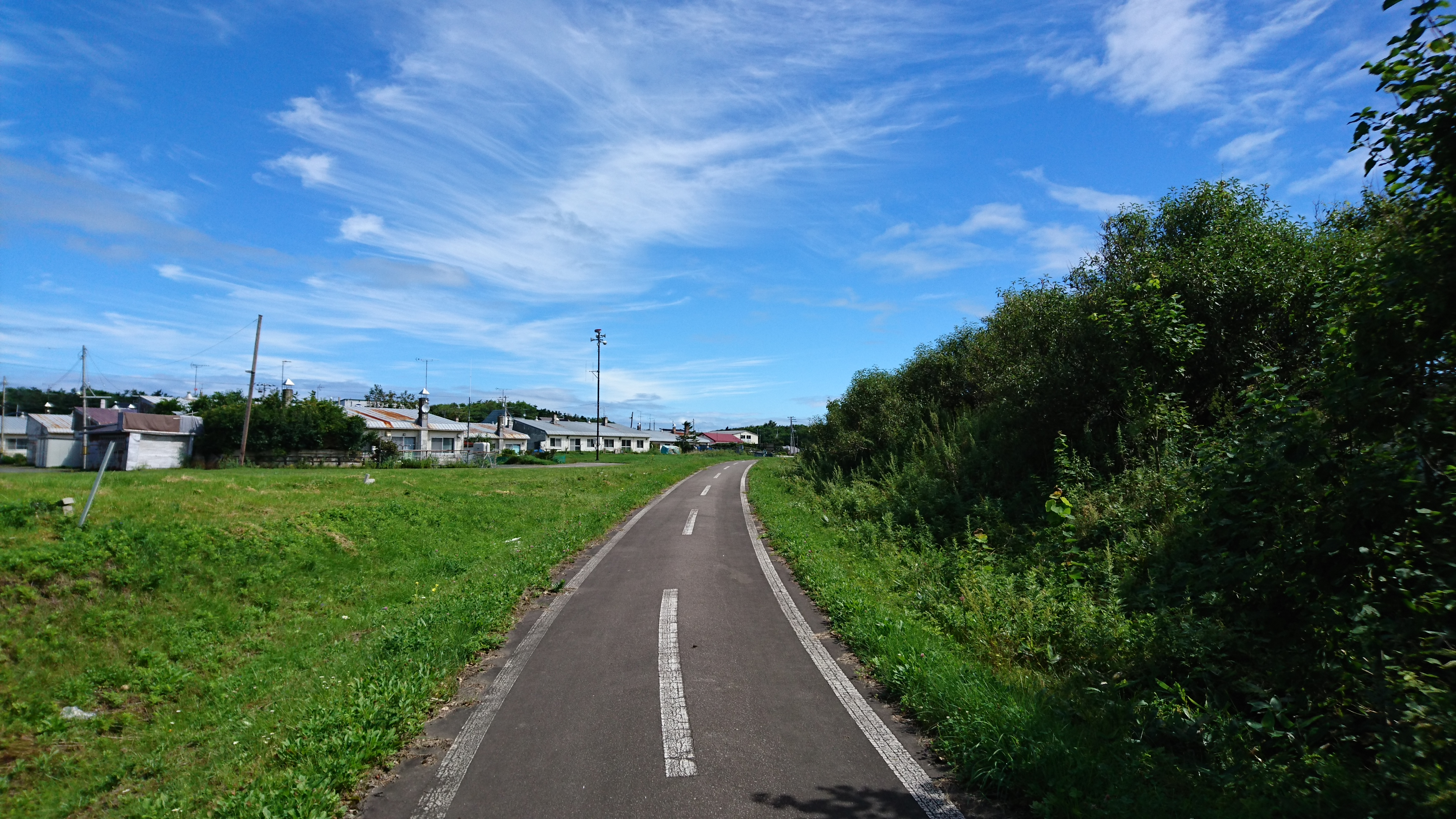 Okhotsk cyclyngroad at tokoro